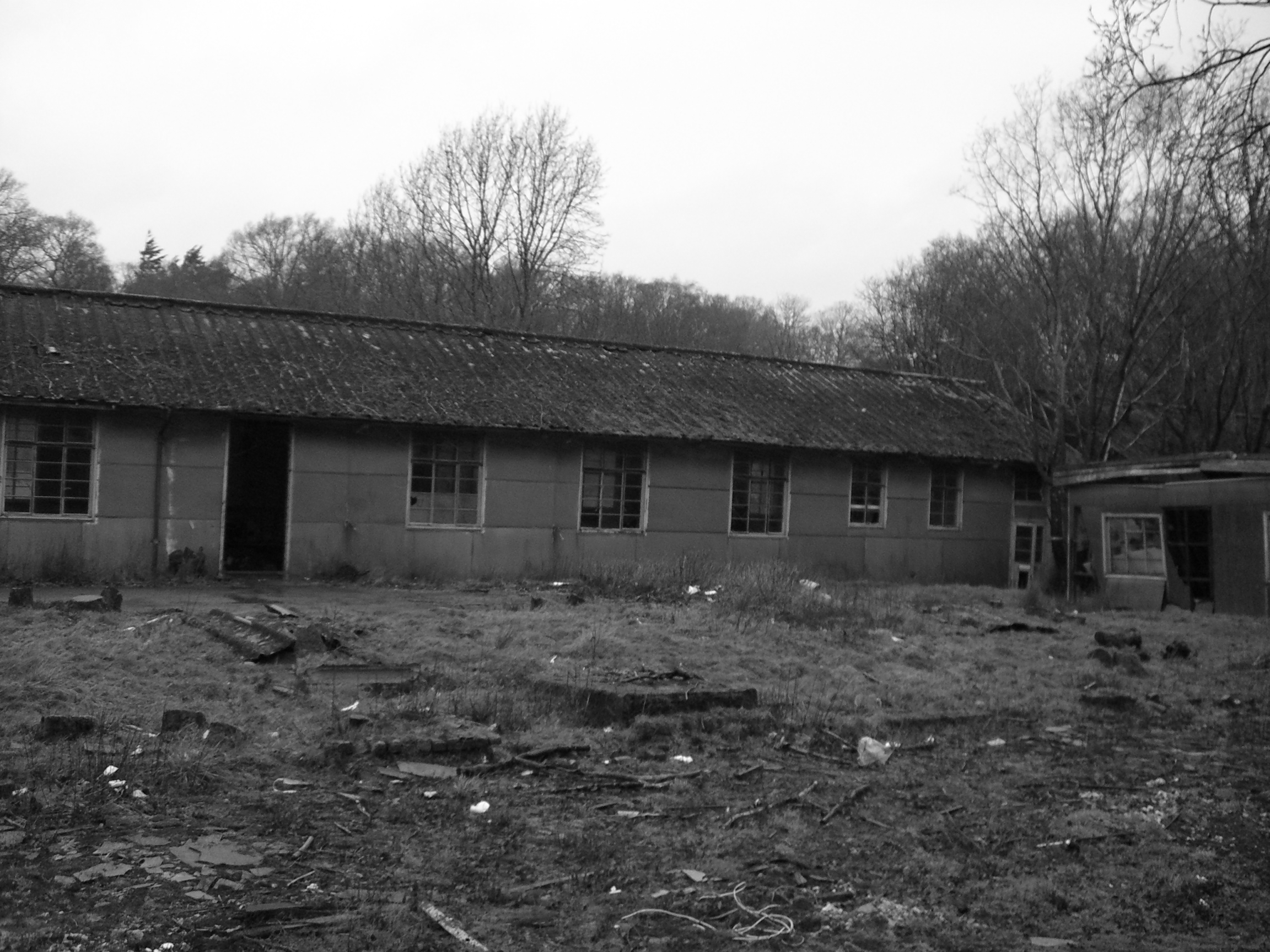 The leaning shack of killearn... Killearn Hospital